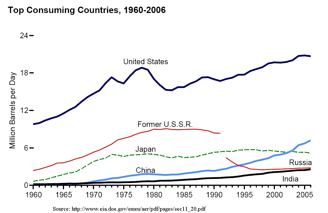 A graph of oil consumption by selected nations from 1960 to 2006. Created by the Energy Information Administration PDF available at Annual Energy Review(AER) site, Section 11 "International Energy", figure 11-10 "World Petroleum Consumption".